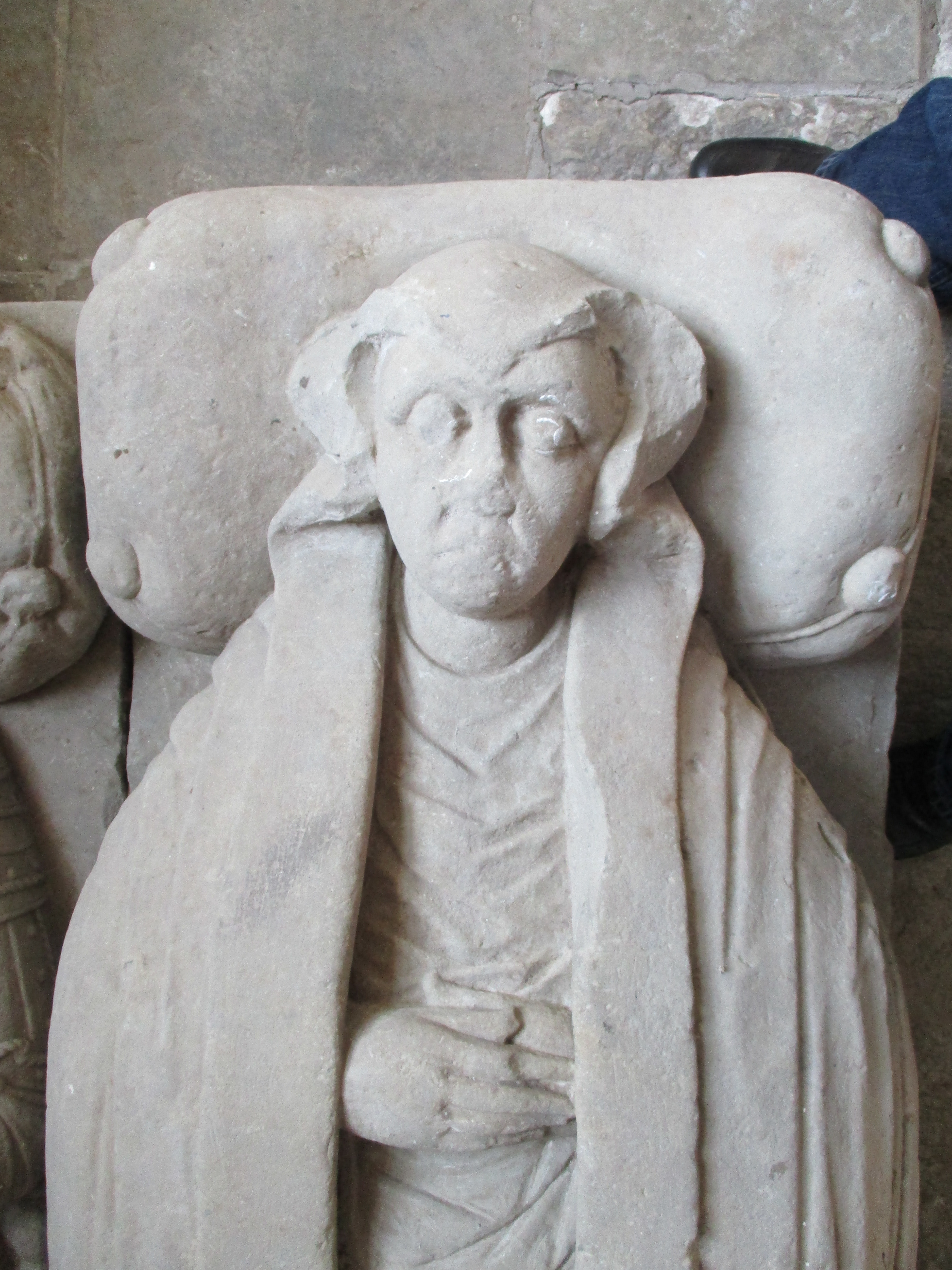 Margaret Cabiljau Slots